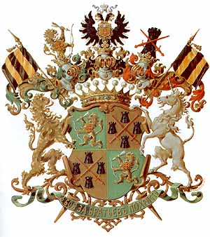 Coat of arms of the Count of Loris-Melikov.